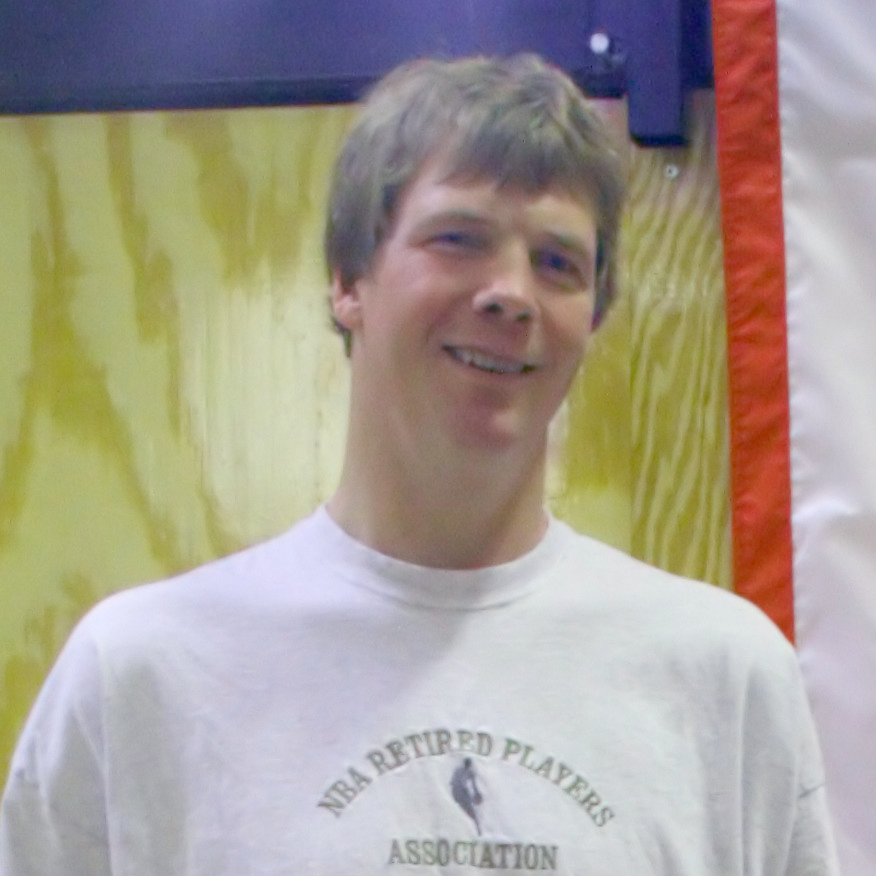 Todd Bivona - Alumni Day @ Marist; Former NBA Star Rik Smits in attendance - Someone else took this picture and credit should be given to the proper authority!